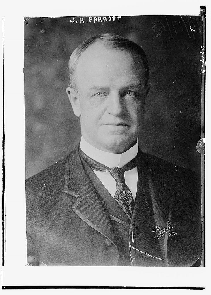 Bain News Service,, publisher. Joseph R. Parrott circa 1913 [no date recorded on caption card] 1 negative : glass ; 5 x 7 in. or smaller. Notes: Title from unverified data provided by the Bain News Service on the negatives or caption cards. Forms part of: George Grantham Bain Collection (Library of Congress). Format: Glass negatives. Repository: Library of Congress, Prints and Photographs Division, Washington, D.C. 20540 USA, General information about the Bain Collection is available at Persistent URL: Call Number: LC-B2- 2717-2